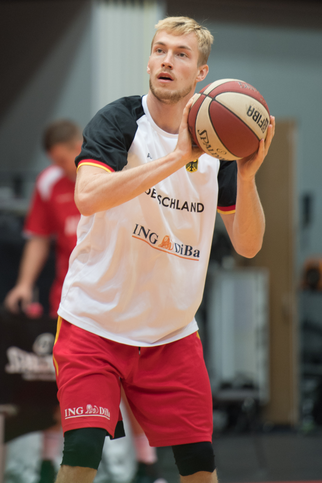 EuroBasket 2017 Qualification Austria vs Germany, Schwechat, Lower Austria, 2016-09-03.